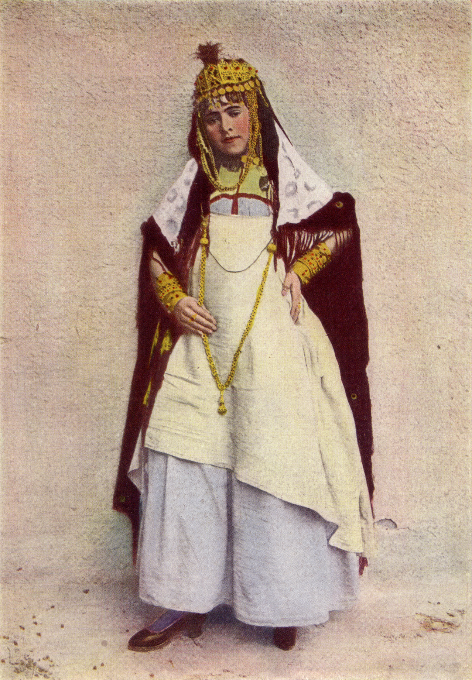 A DANCER OF THE CAFÉS, ALGERIA. Their faces clouded with a dark paint to increase the natural effect of the desert sun on their skin, their nails darkened with henna, and their cheeks faintly tattooed in blue to show their caste, these beauties of the Ouled Naïl tribe furnish much local color in the crowded cafés of Northern Africa. Their costumes are gorgeous and their heavy ornaments are largely of gold and silver coins.